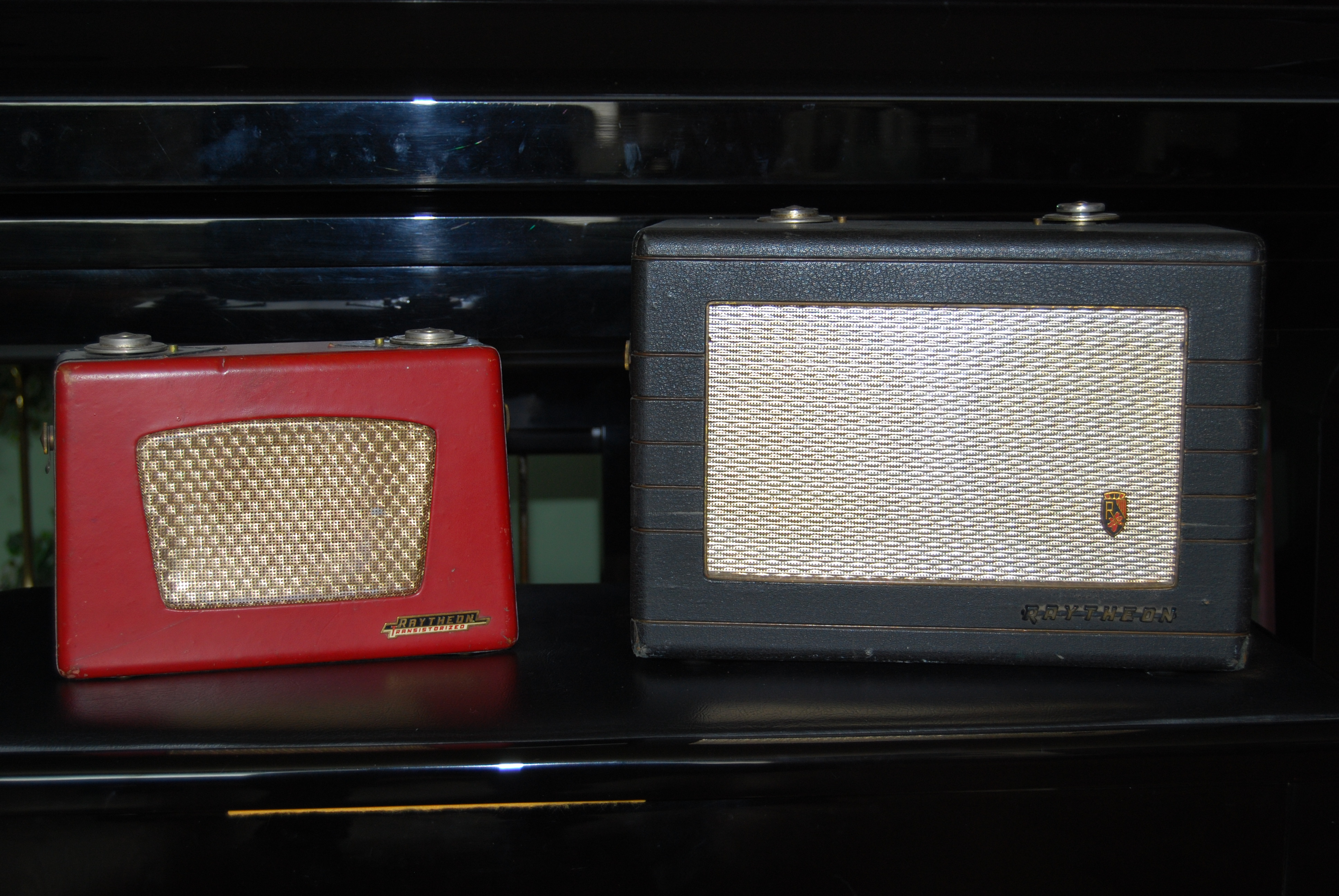 Raytheon made the World's Second Transistor Radio (1955), a few months after the Regency TR-1. They left the Transistor Radio business in 1956 with the T-2500 (RIGHT) as the last model.